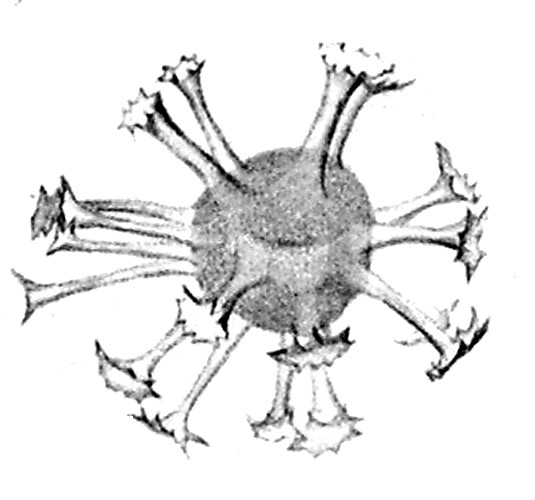 Dinocyst drawn by Ehrenberg in 1837 was originally misidentified as a cyst of Xanthidium tubiferum (Charophyta: Zygnematophyceae: Desmideales).